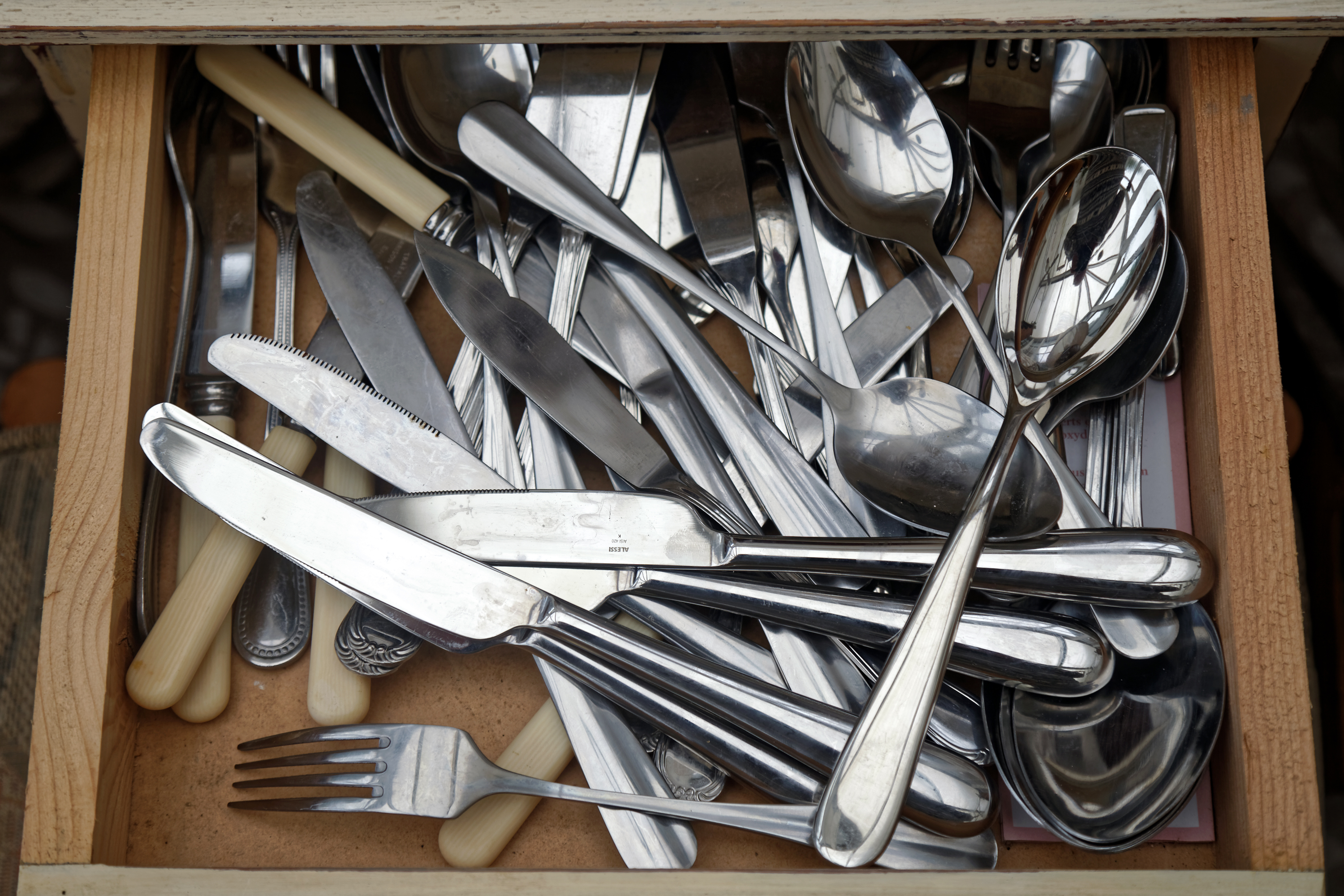 A drawer of silver service cutlery: knives, forks and spoons, at Nuthurst, West Sussex, England